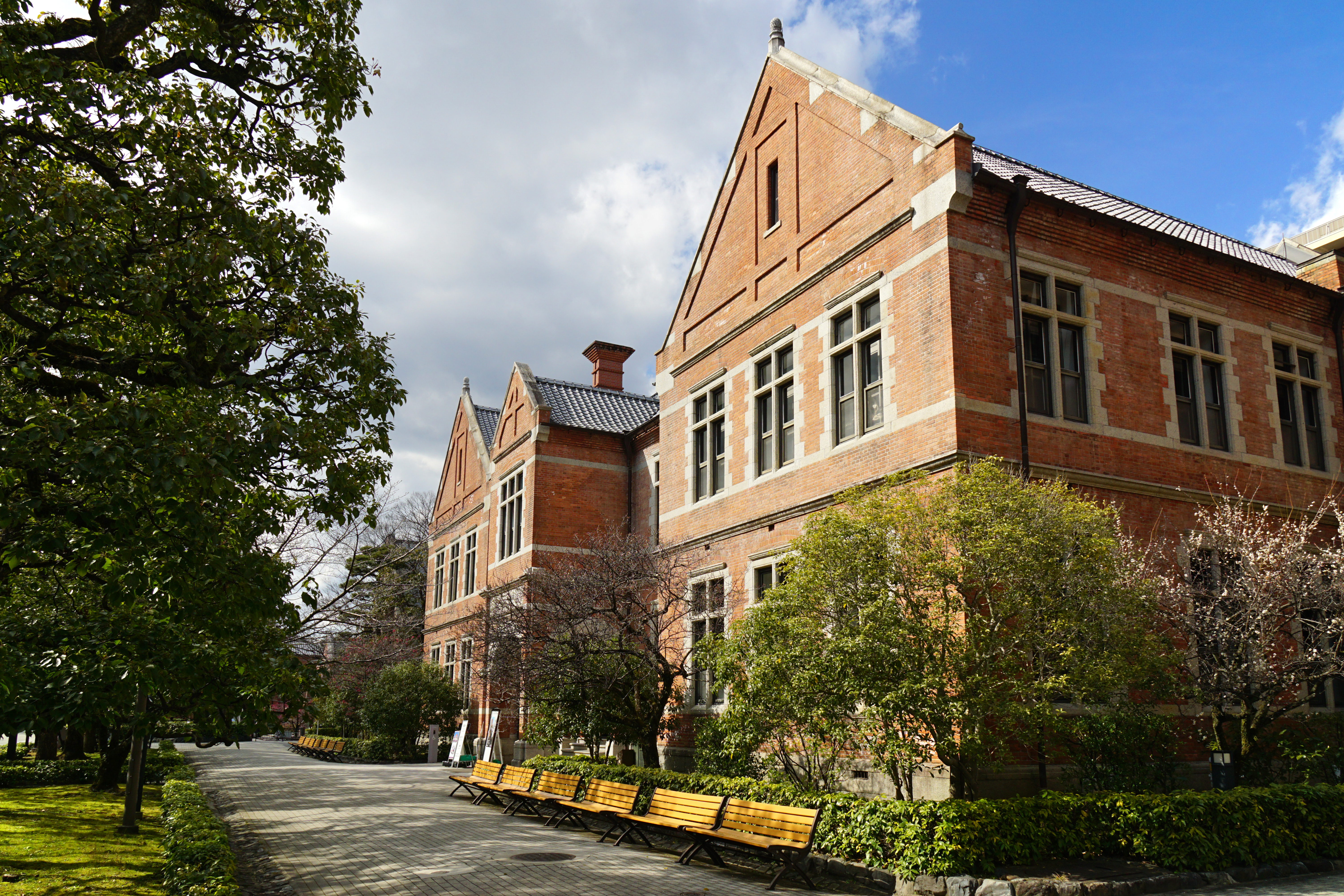 Doshisha University Imadegawa Campus in Kyoto, Kyoto prefecture, Japan